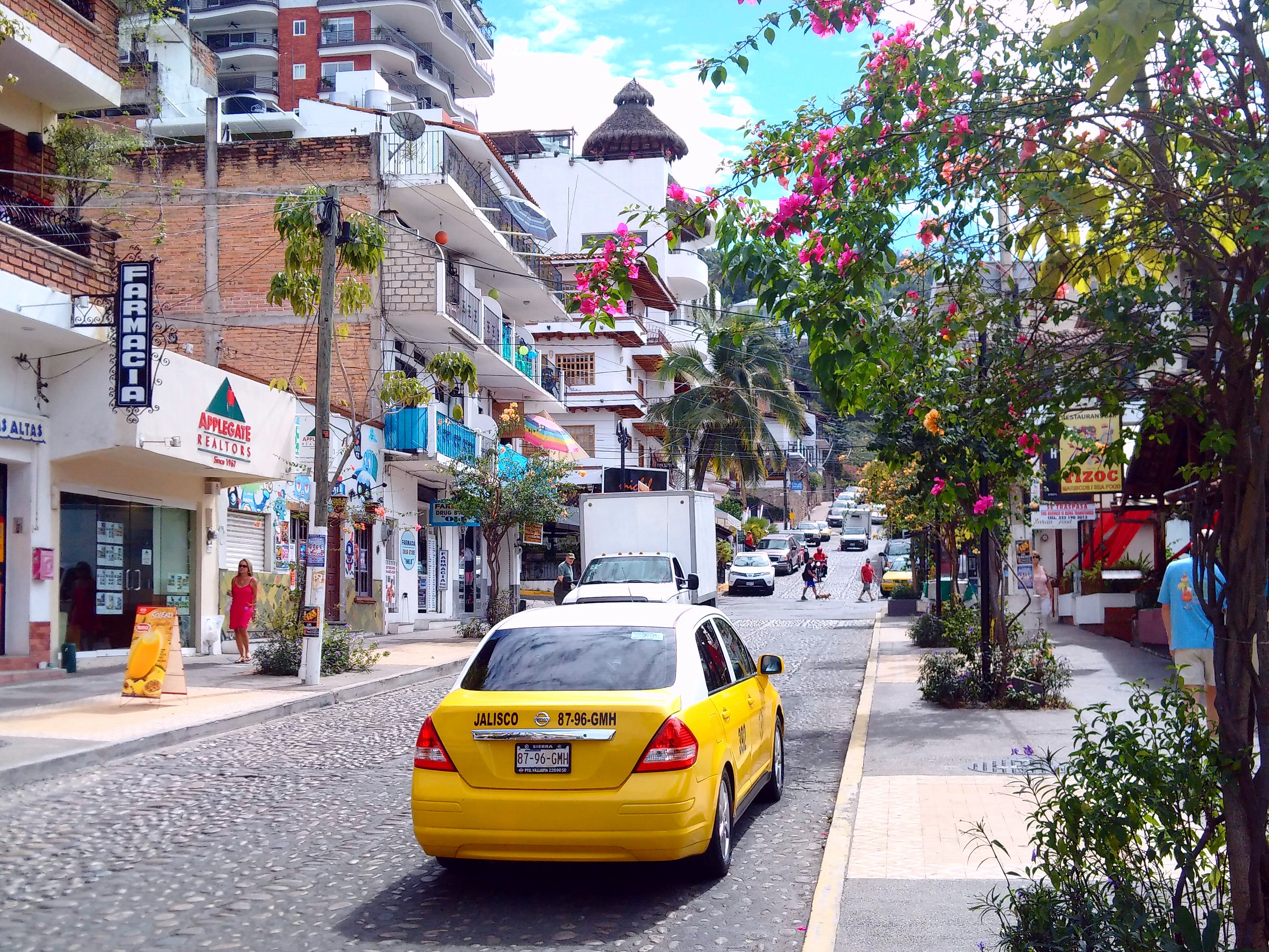 Downtown street in Puerto Vallarta (2015).